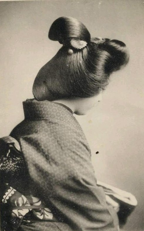 This hairstyle is known as Maru-mage.